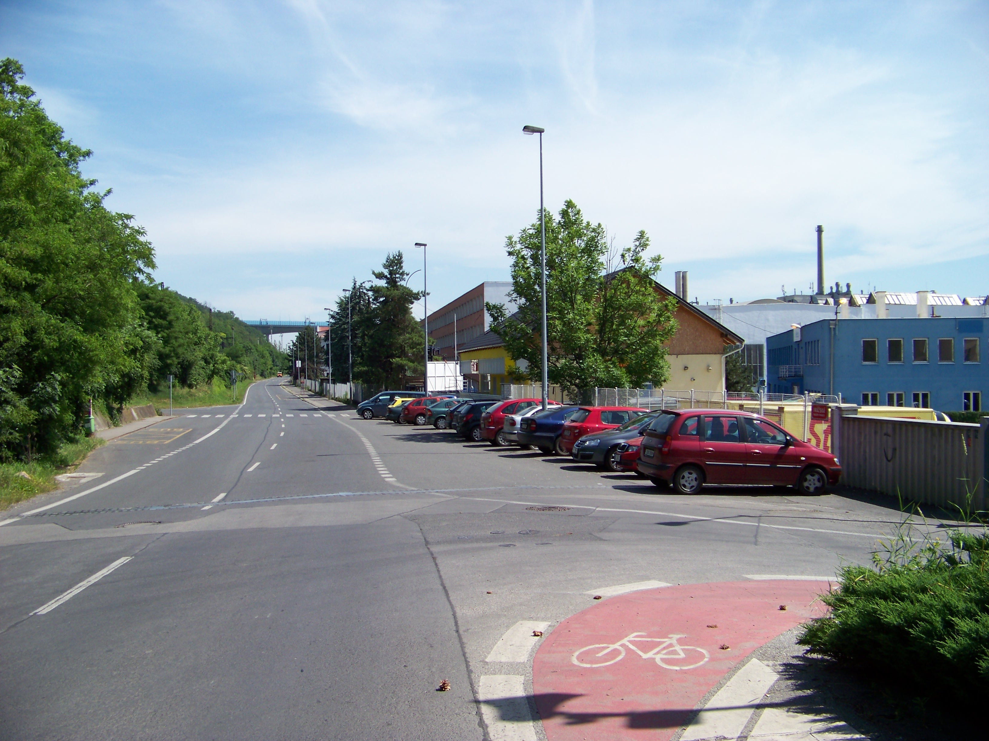 Prague-Radotín, Czech Republic. Vrážská street, from U Jankovky street.